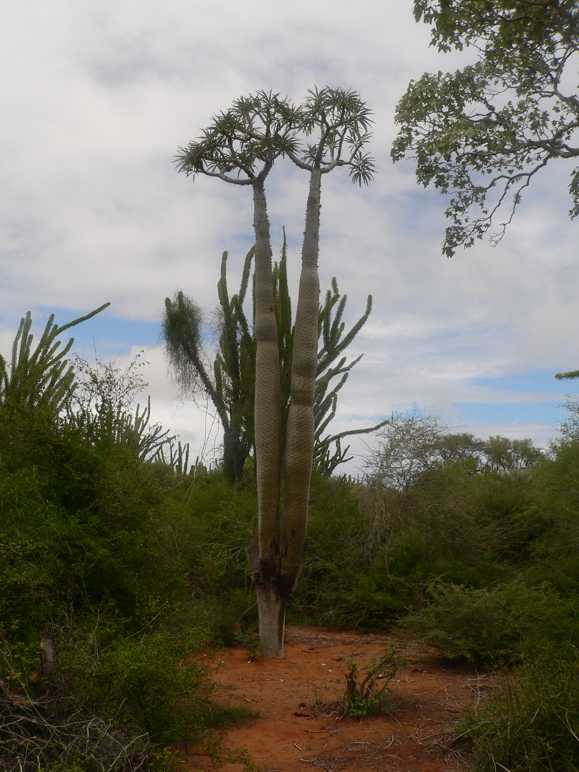 Pachypodium lamerei (Apocynaceae), spiny forest at Mangily, western Madagascar